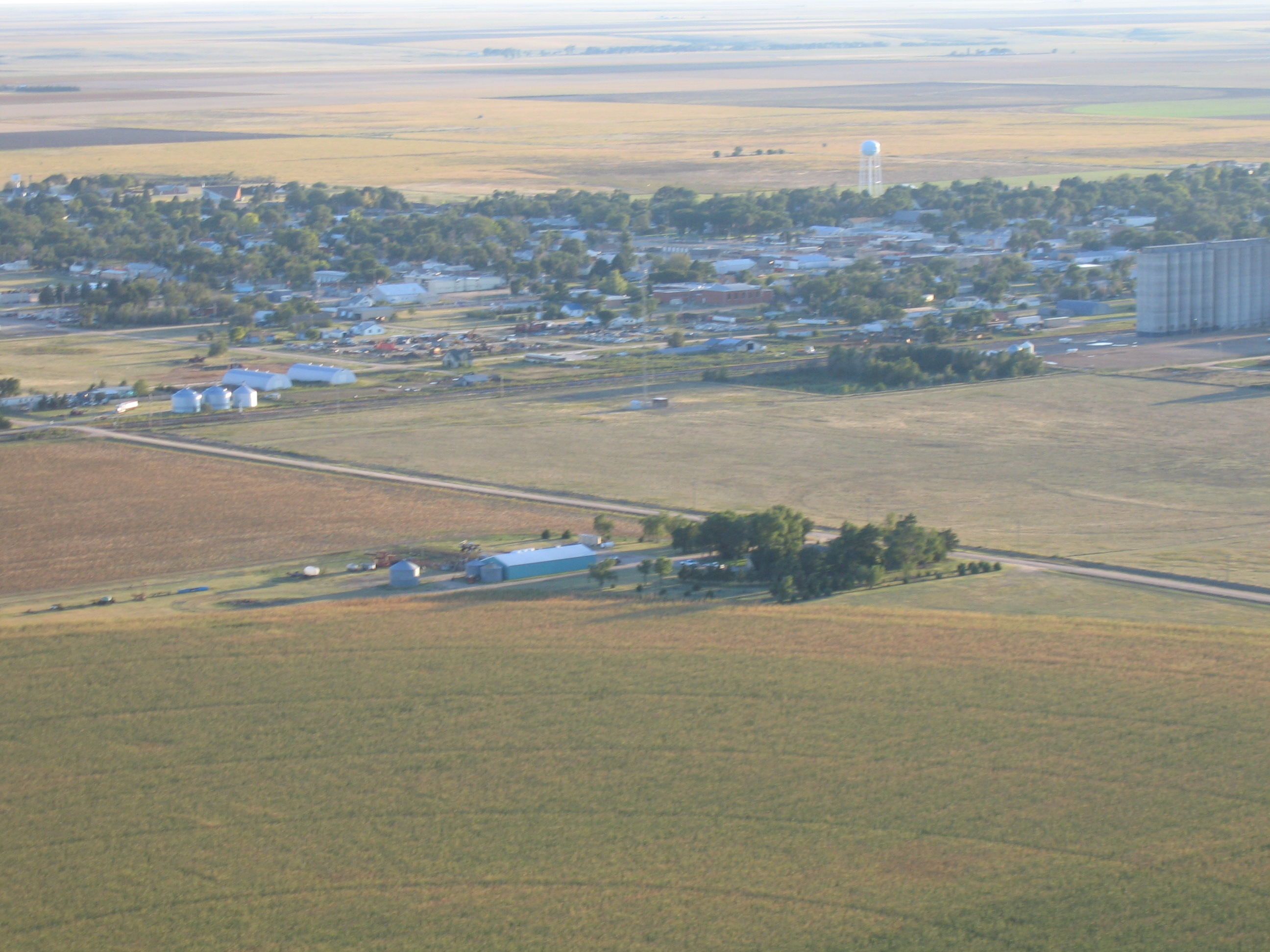 Taken while flying near Leoti.